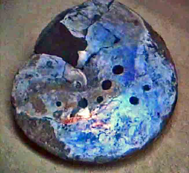 Fossil shell of ammonite Placenticeras whitfieldi showing punctures caused by the bite of a mosasaur. Fossil from Black Hills, South Dakota at Peabody Museum of Natural History, Yale